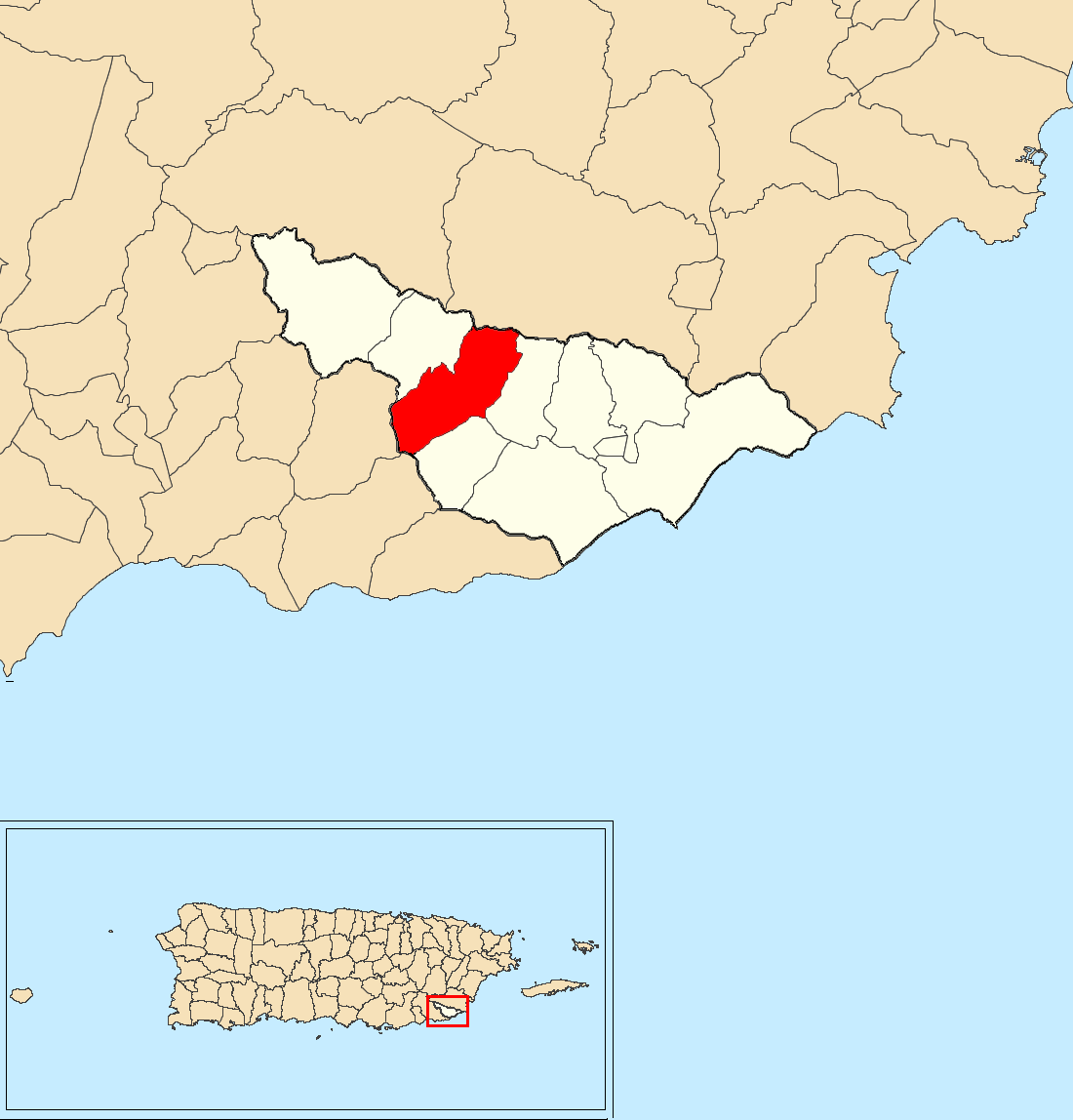 Lizas, Maunabo, Puerto Rico locator map